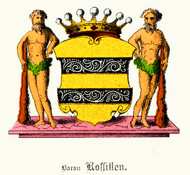 Coat of arms of Baron Rossillon family